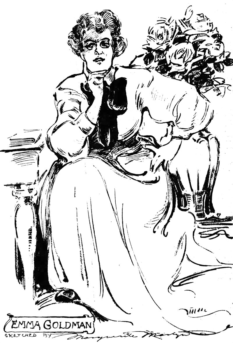 Emma Goldman as sketched by Marguerite Martyn, published November 1, 1908, in the St. Louis Post-Dispatch